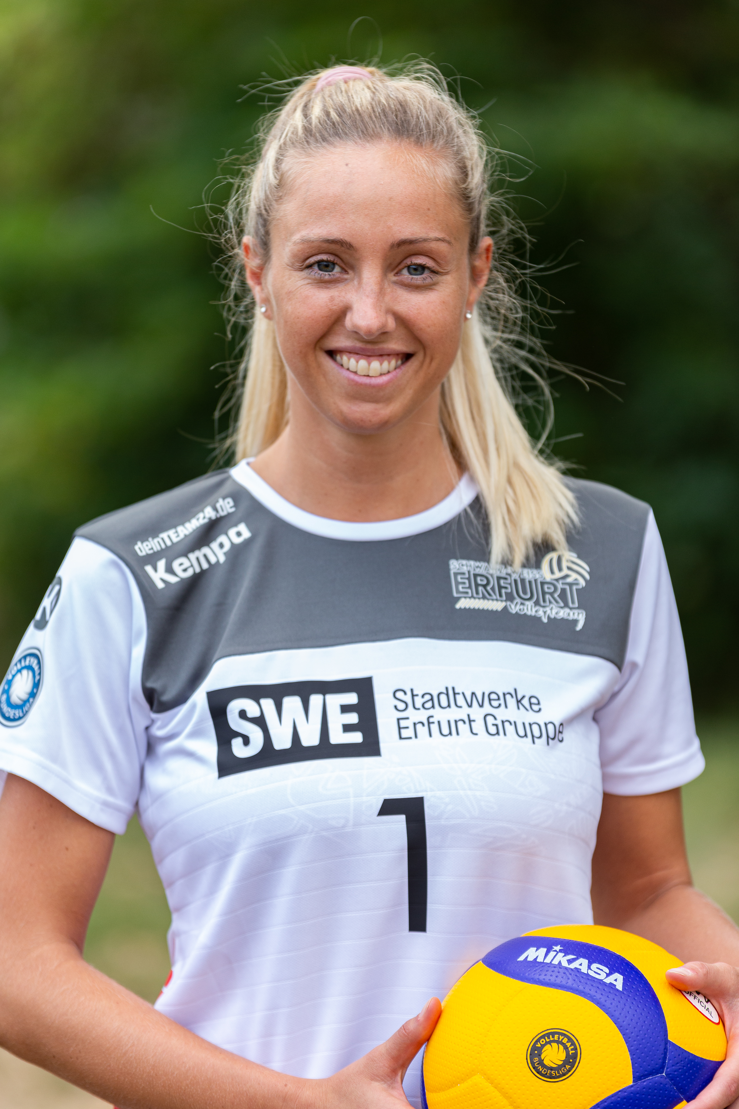 Volleyball, German First League Women, Schwarz-Weiss Erfurt Volleyteam, team presentation